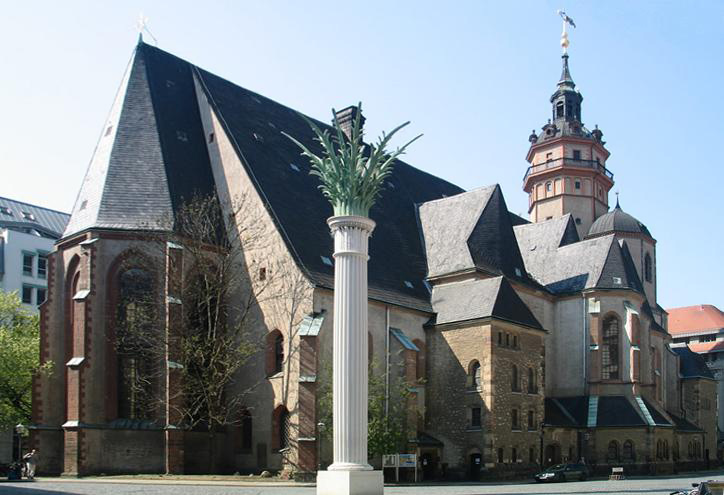 Church of Nikolai Leipzig, Germany